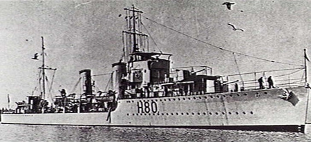 Photograph of British destroyer HMS Brazen.